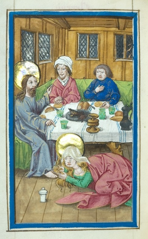 Painting in a manuscript written by Niclas Numan, Frankenthal (1501, cpg 440)